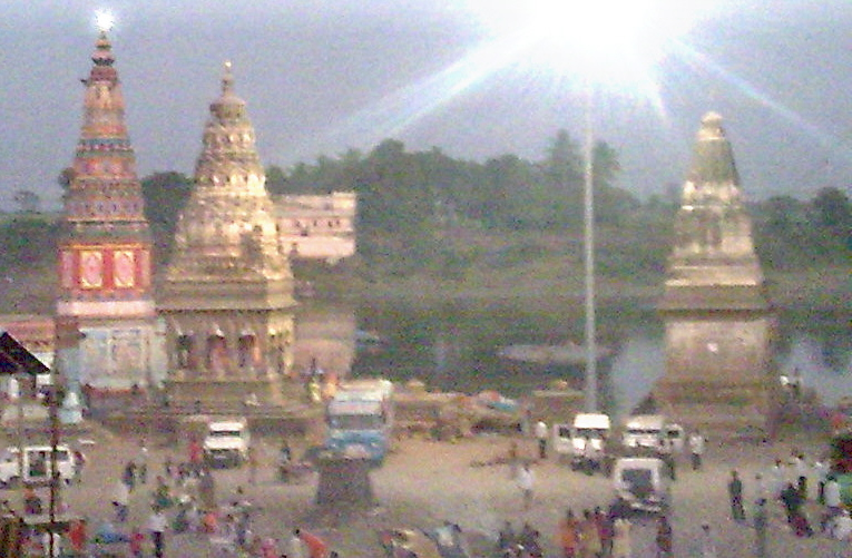 Temples on the bank of river Chandrabhaga, Pandharpur. On the right, is Pundalik's temple.